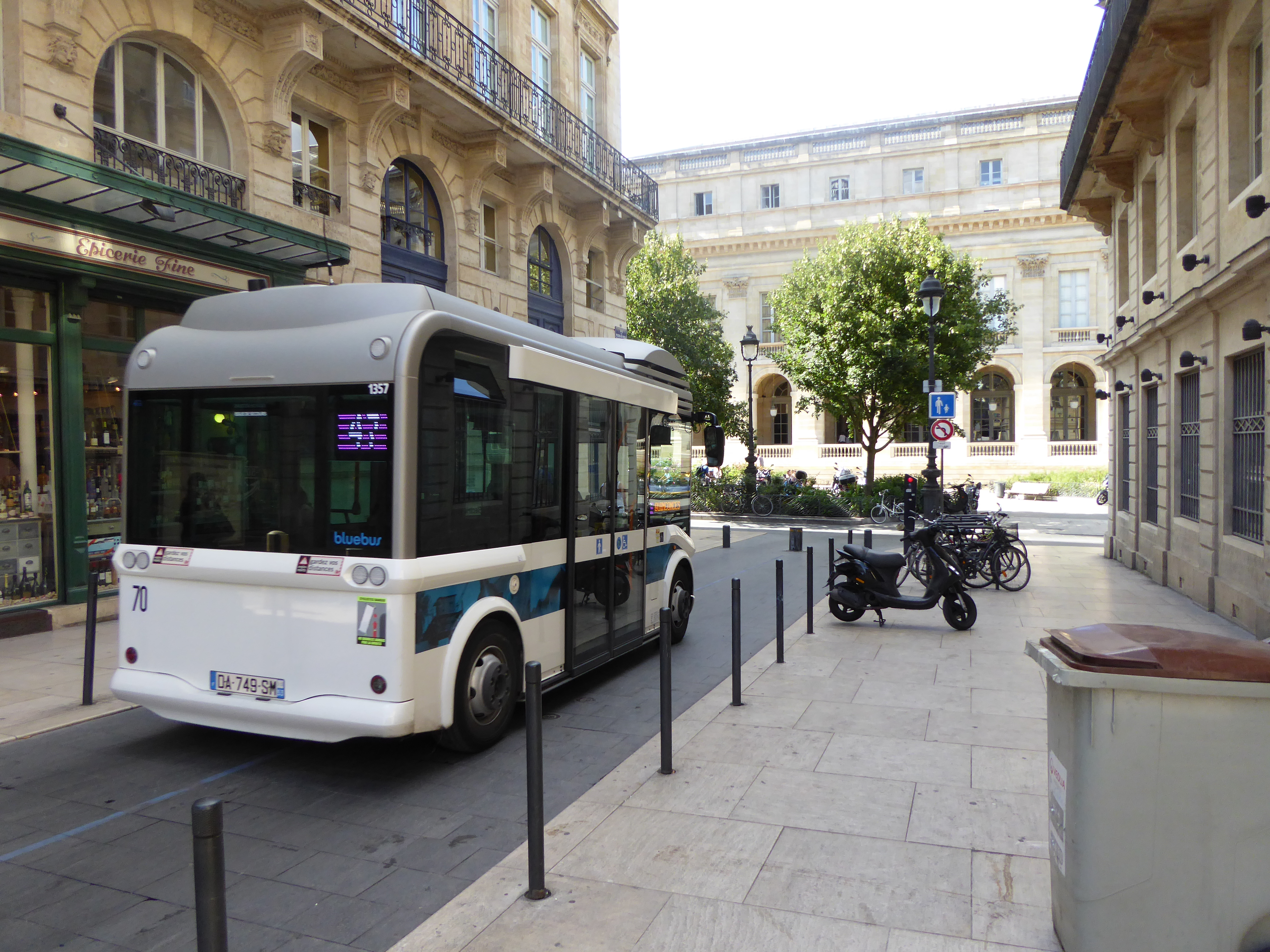 Bus on Rue des Piliers-de-Tutelle, Bordeaux, France, July 2014